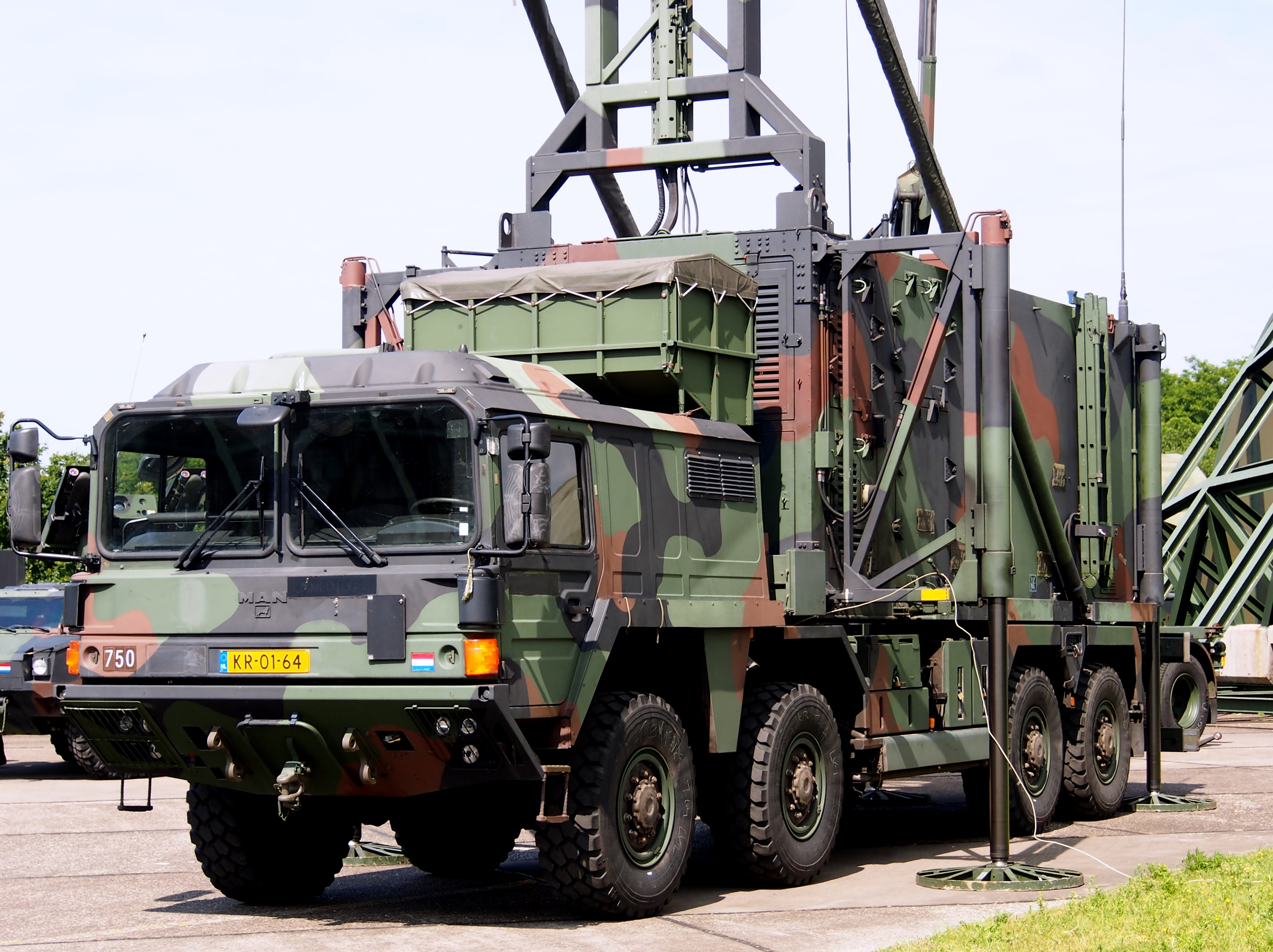 Photographed at Gilze-Rijen Air Base ( IATA=GLZ, ICAO=EHGR), The Netherlands.